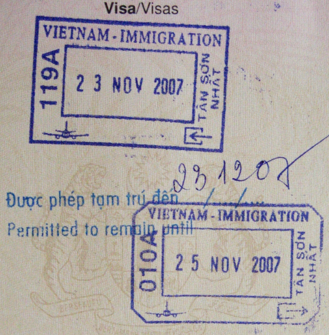 High resolution picture of a Vietnam immigration stamp on a Malaysian passport